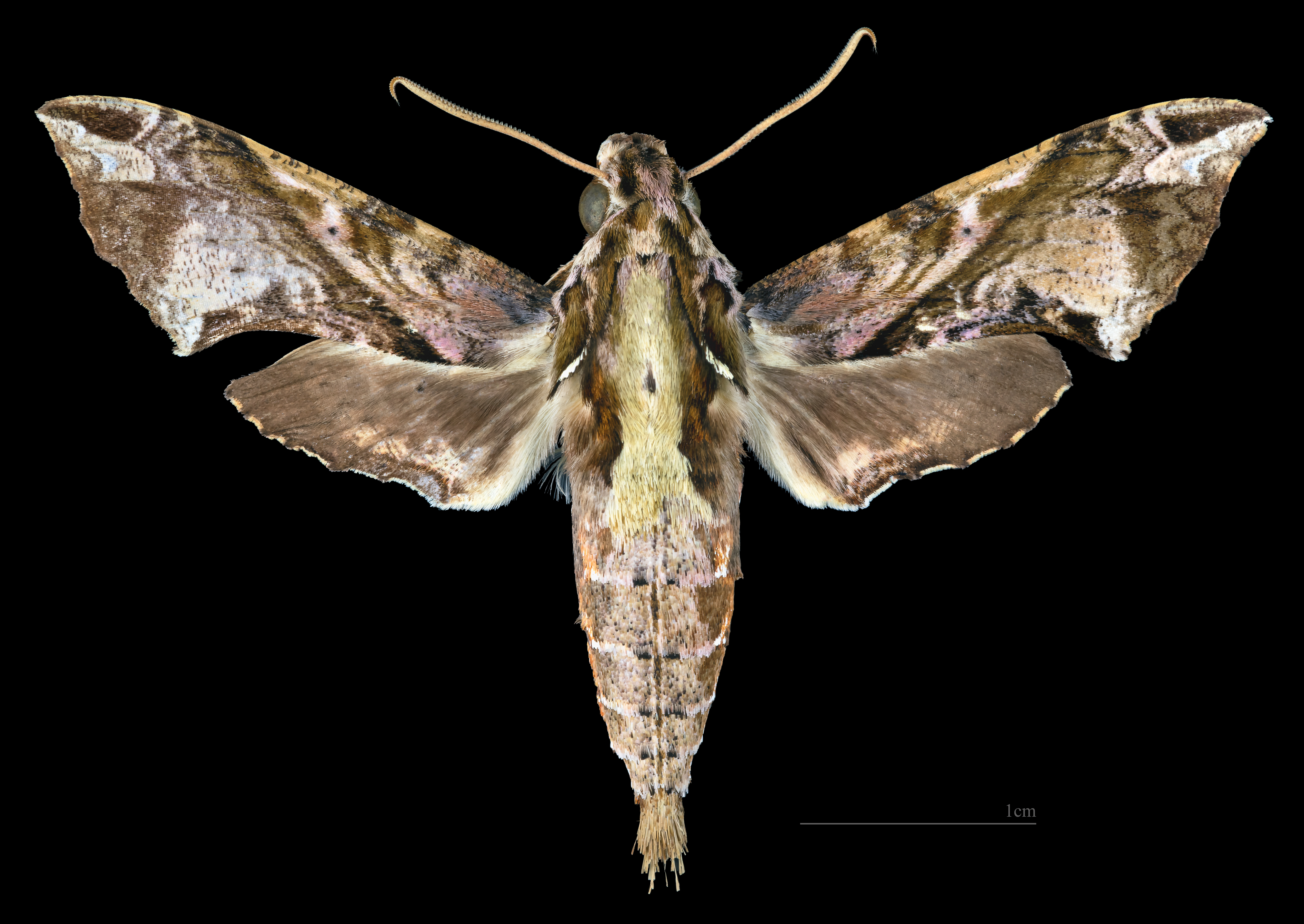 Eupanacra elegantulus - Dorsal side Collection of the Mathematician Laurent Schwartz